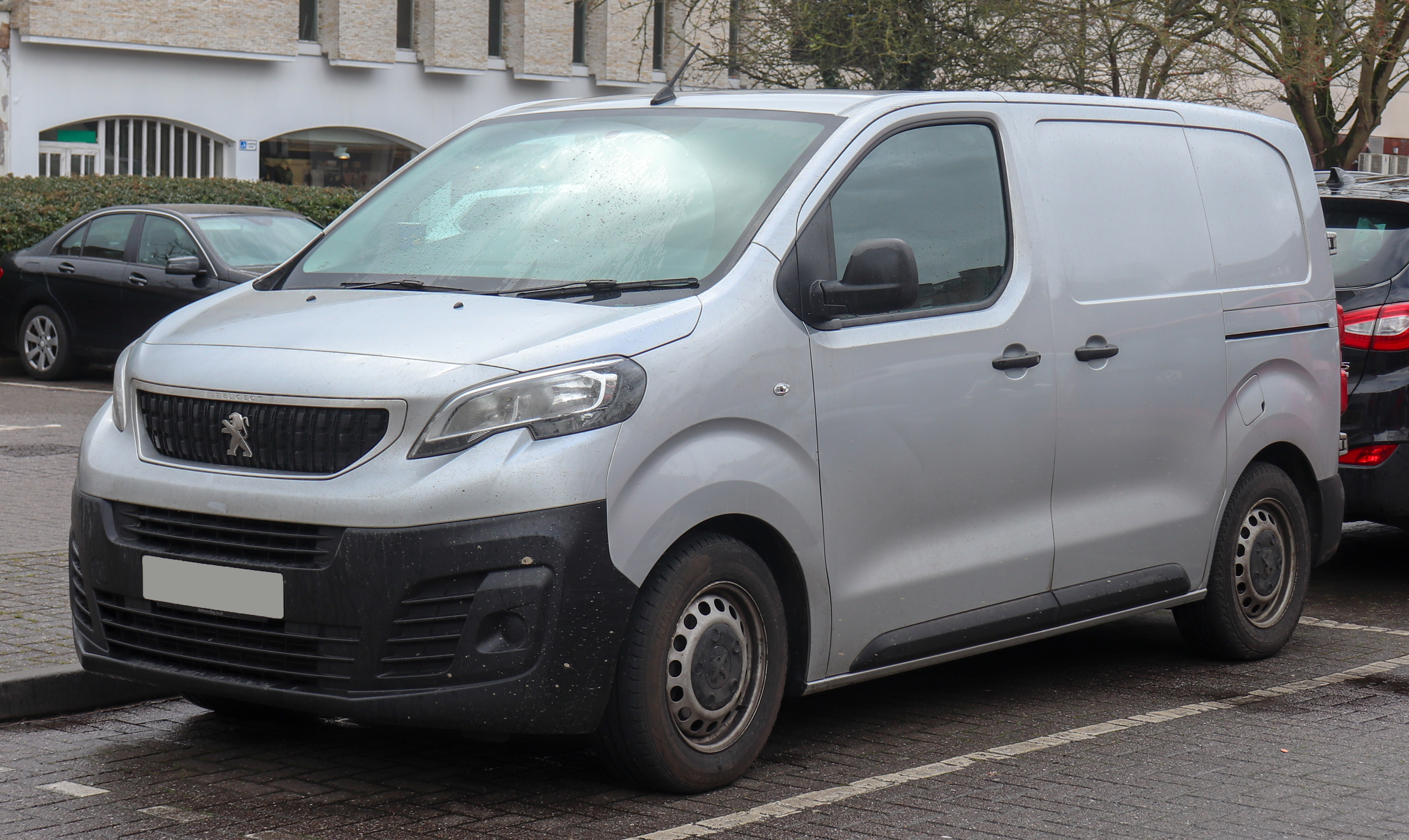 2017 Peugeot Expert PRO Compact BlueHDi 1.6 Taken in Leamington Spa